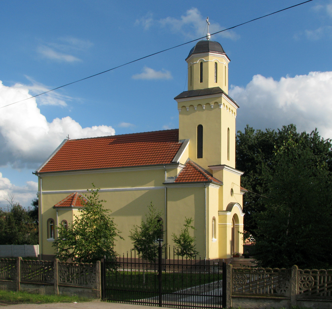 Church in Salakvac, Serbia